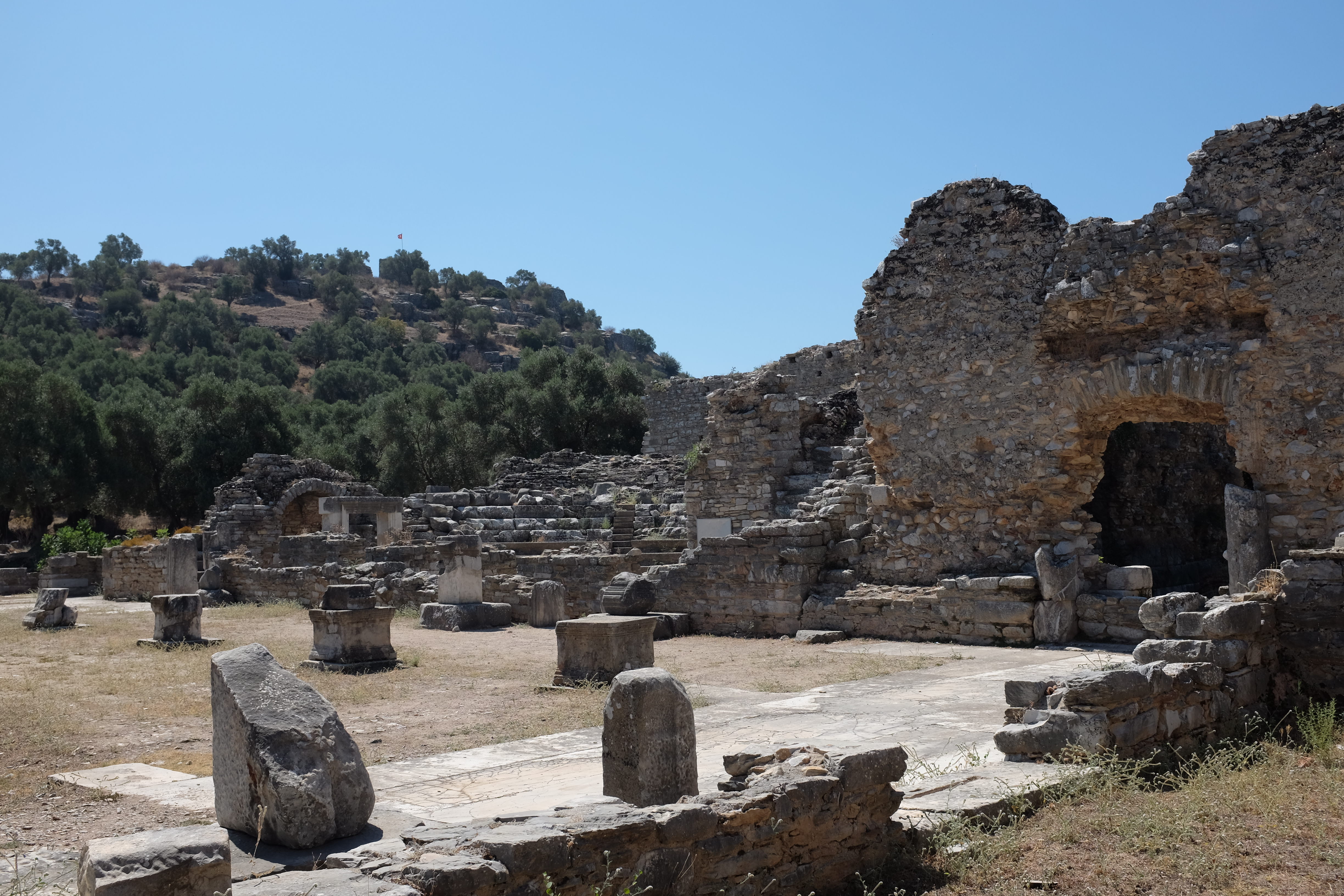 The Hellenistic tower is on the right, the bouleuterion in the center. The acropolis is on the hill seen on the left.